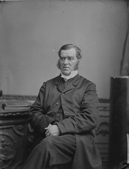 1 negative : glass, wet collodion, b&w ; 21.5 x 16.5 cm.